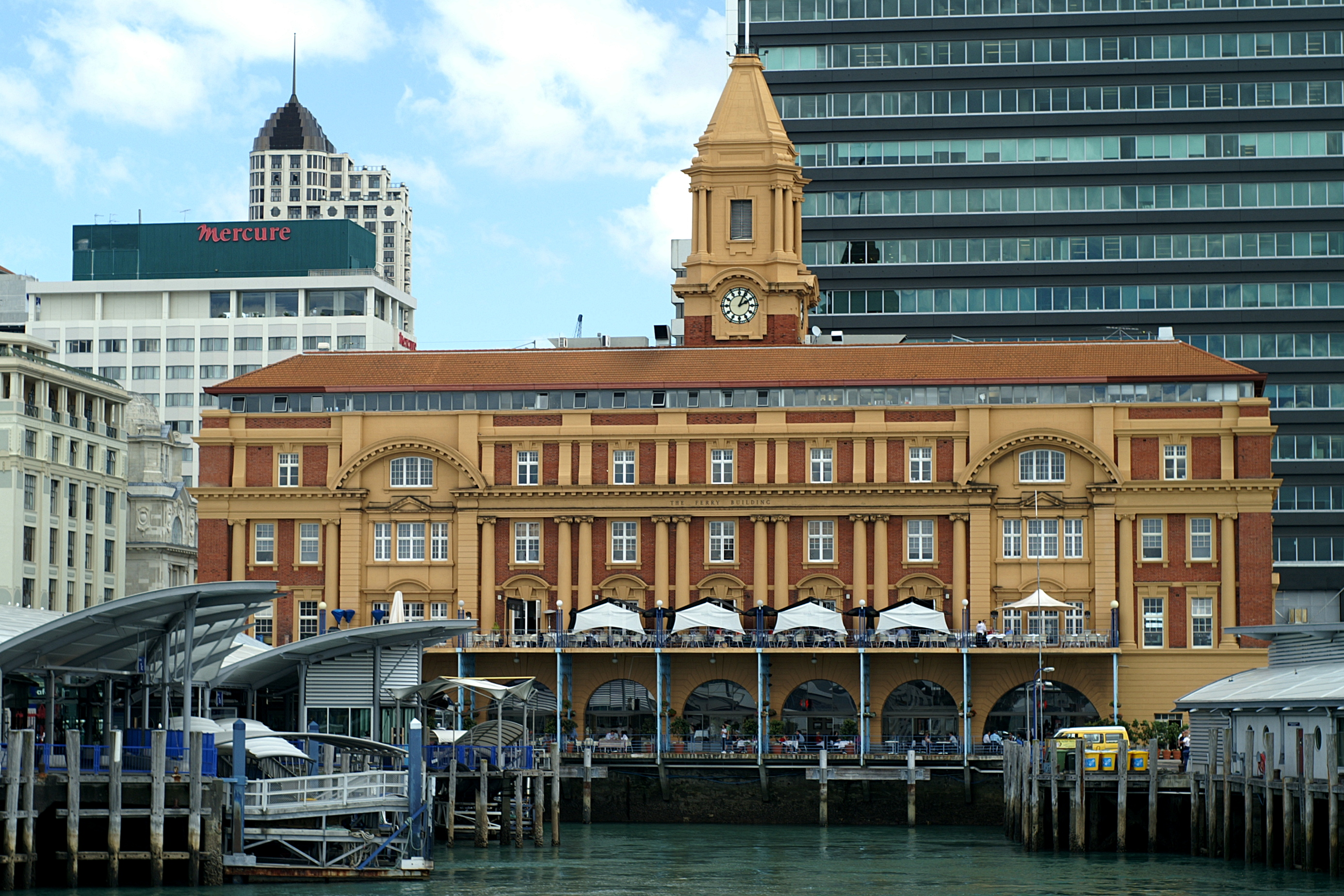 Auckland Ferry Terminal as seen from the harbour